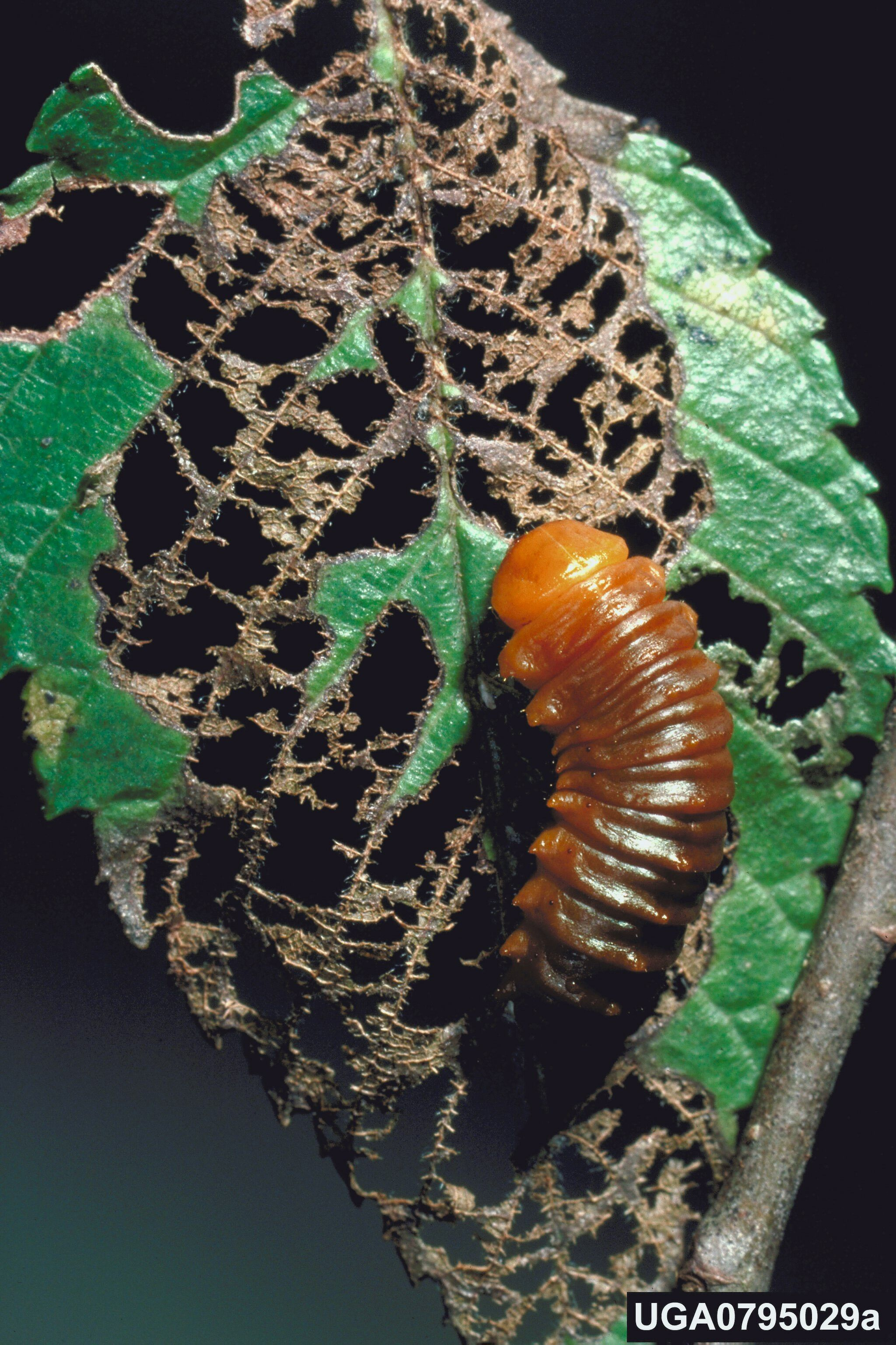 Monocesta coryli larva on Ulmus americana leaf in USA